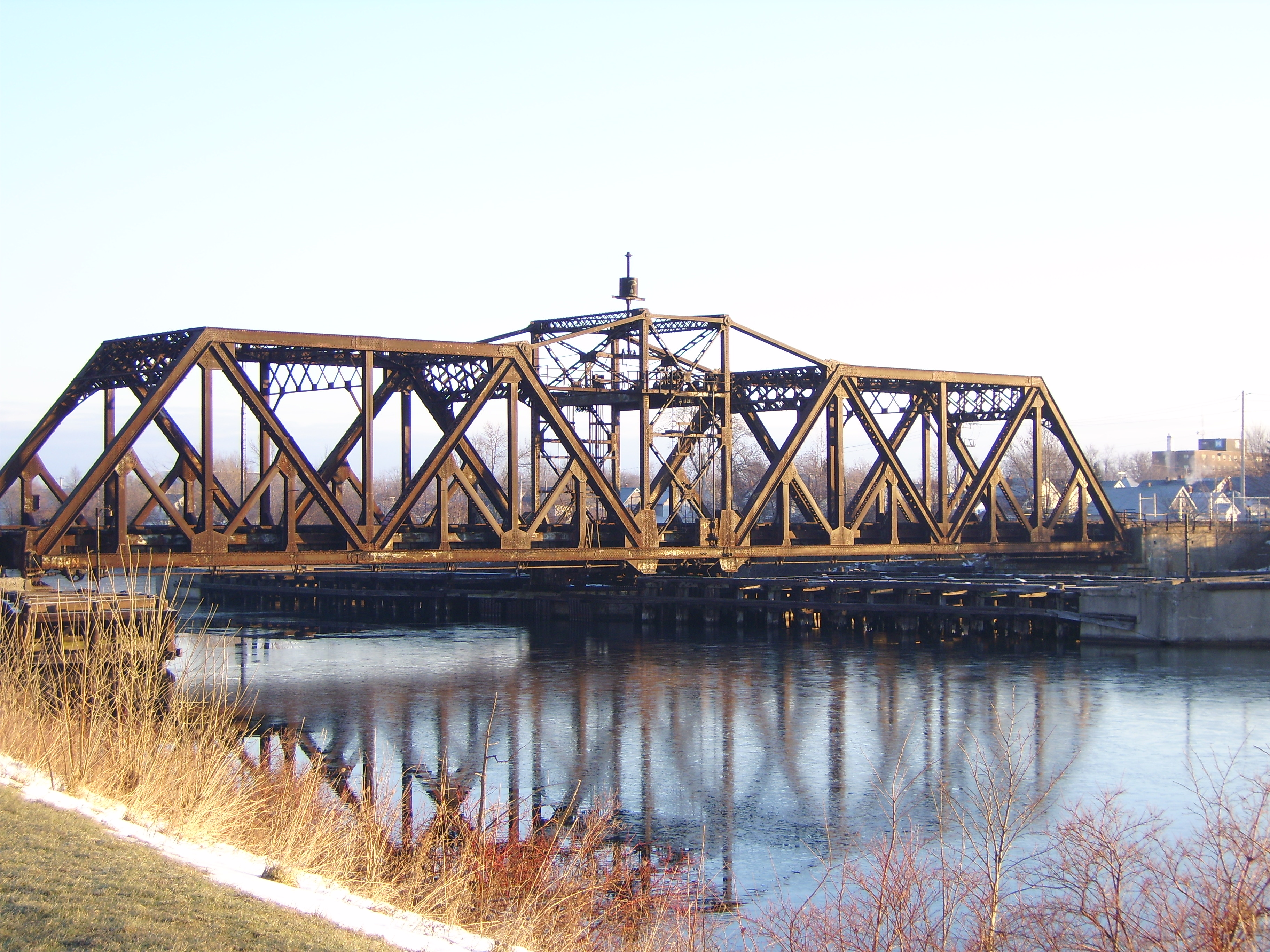 Welland Canal, Bridge 15 - The Canada Southern Railway (CASO) Swing Bridge. This bridge, as with the rest of the CASO line was used by Michigan Central, New York Central and Penn Central over the years. It is now owned by Canadian Pacific, but not connected to the rest of their network. It is very rarely use by the Port Colborne Harbour Railway to service one industry. It crosses the Welland Recreational Waterway, an abandoned route of the Welland Canal at Welland, Ontario